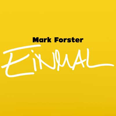 „Einmal“ Single-Cover by Mark Forster.